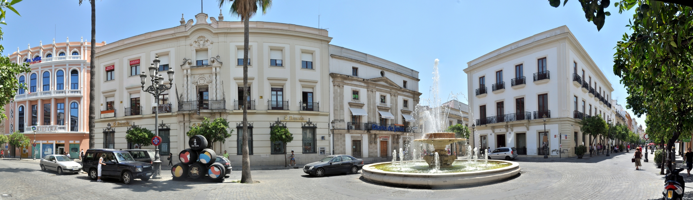 Casino roundabout, panoramic, Jerez